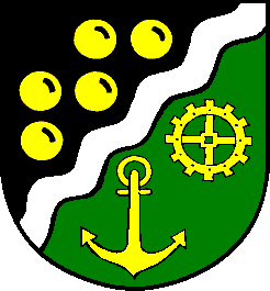 Coat of arms of the municipalitie Moorrege in Schleswig-Holstein, Germany.